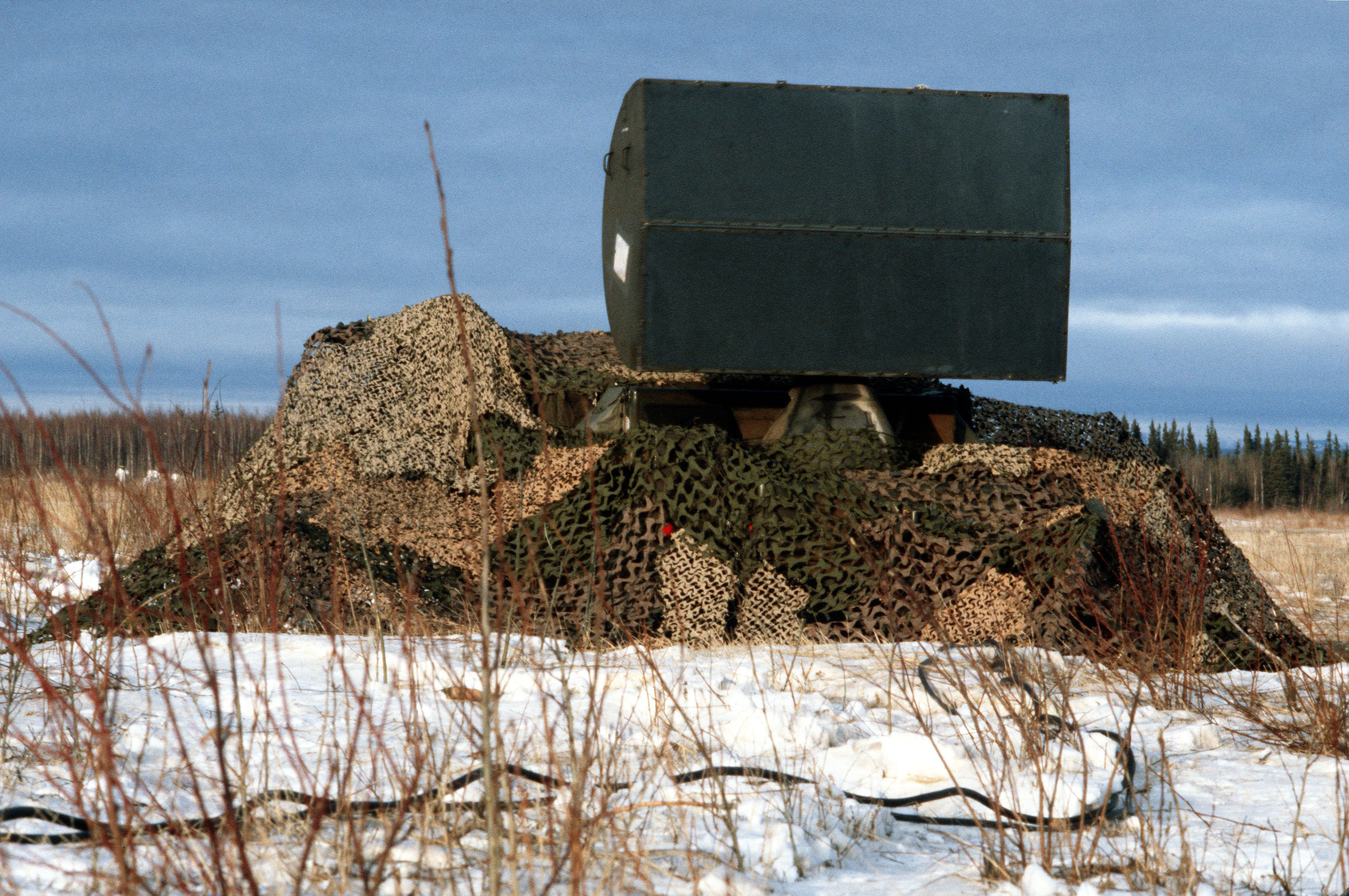 MIM-23 Hawk : A view of a Continuous Wave Acquisition Radar station in use during exercise BRIM FROST '83.